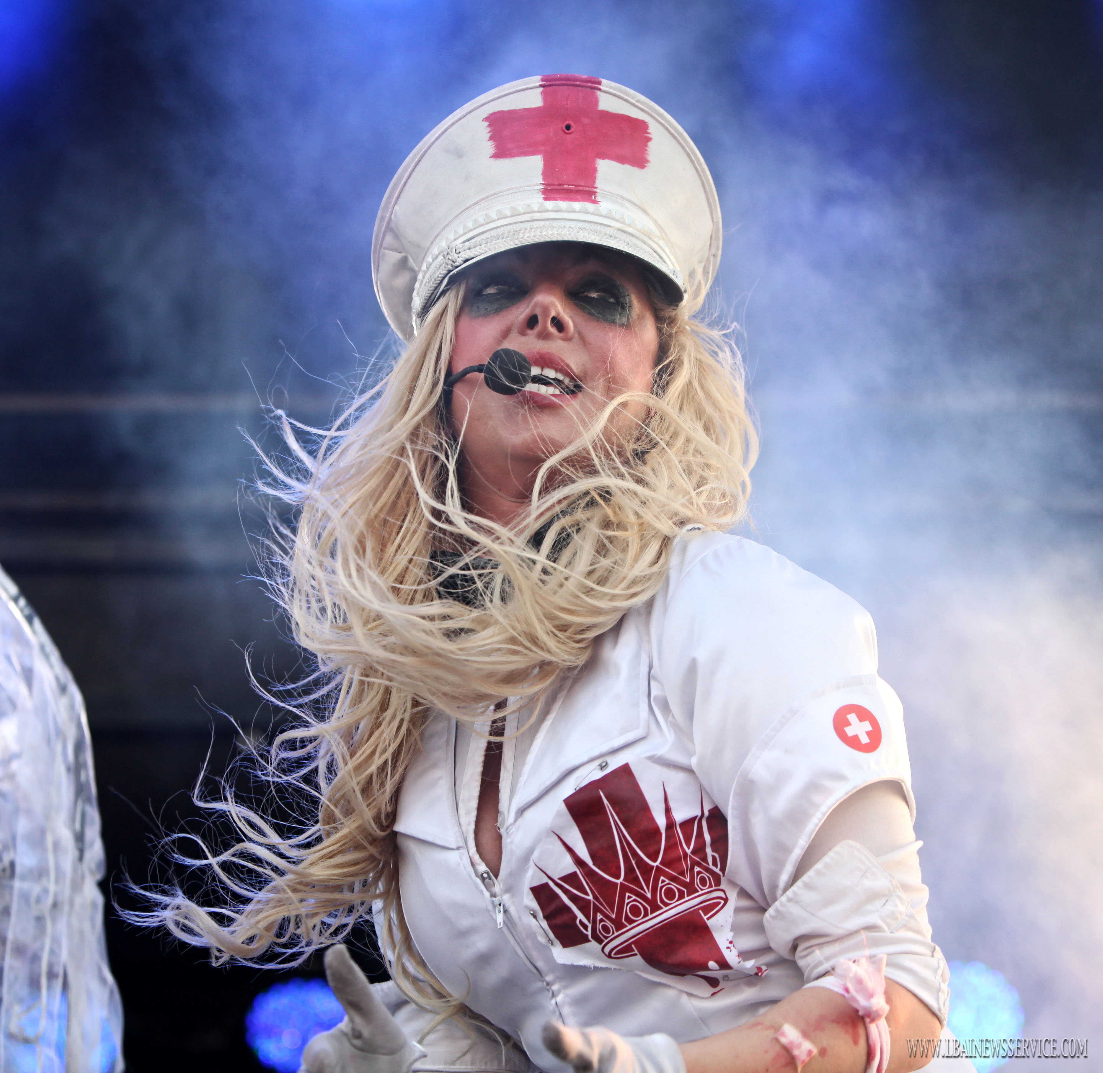 In This Moment performs at Fort Rock Festival 2013 at Jet Blue Park in Fort Myers - April 14, 2013